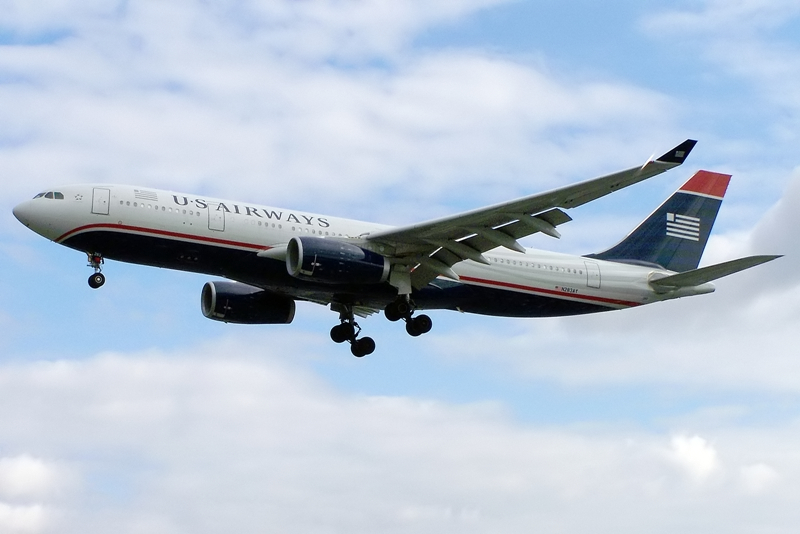 US Airways Airbus A330-243